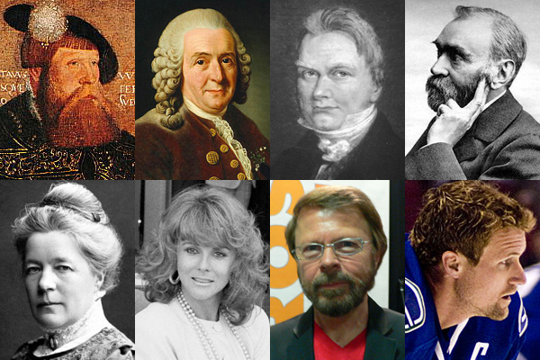 Collage of images representing the Swedish people. Top Row (left to right): Gustav Vasa, Carl Linnaeus, Jöns Jakob Berzelius, Alfred Nobel Bottom Row (left to right): Selma Lagerlöf, Ann-Margret, Björn Ulvaeus, Markus Näslund